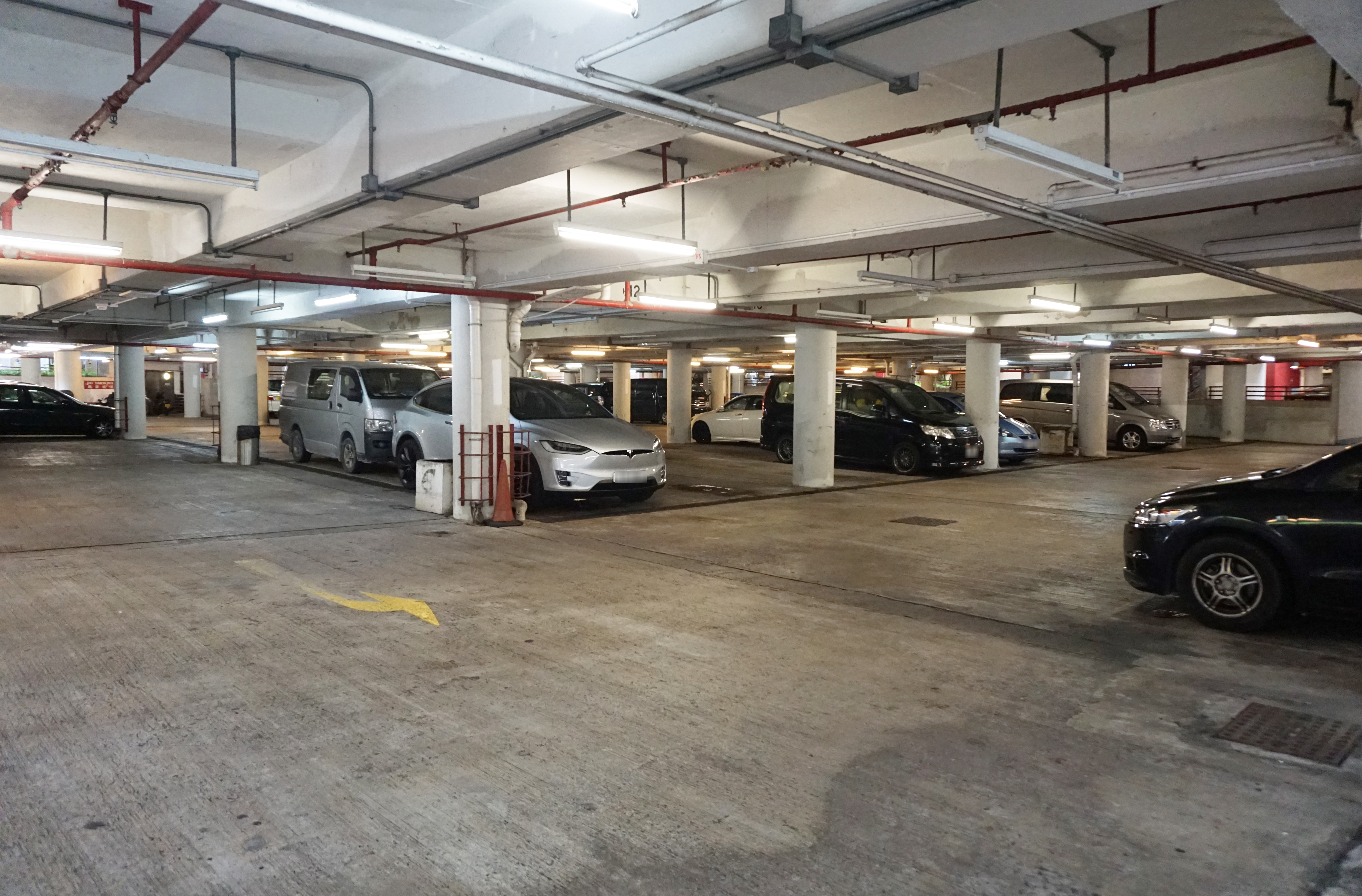 Cheung Hong Estate in Tsing Yi, Hong Kong.